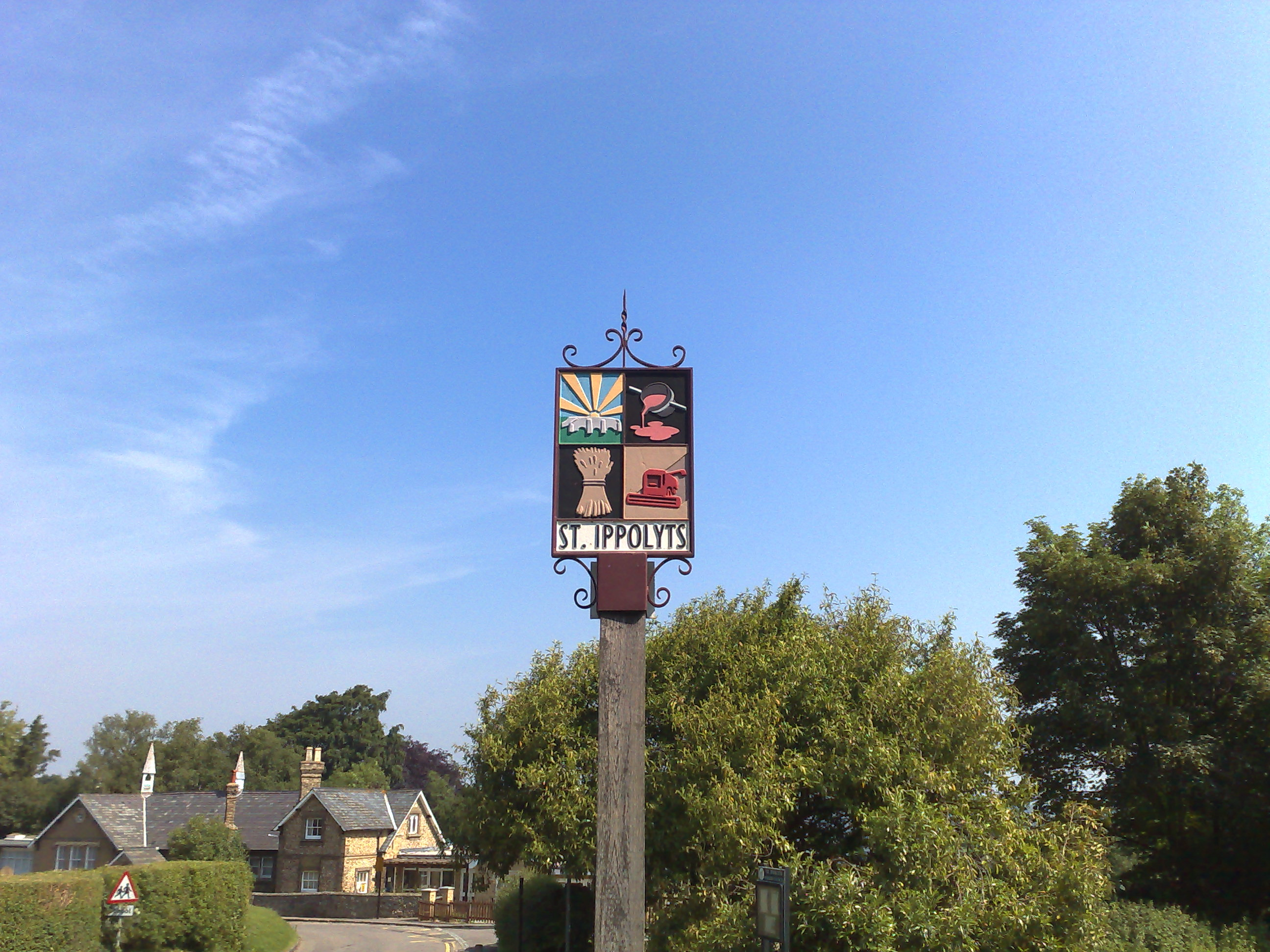 St Ippolyts village green, Hertfordshire. June 2007.